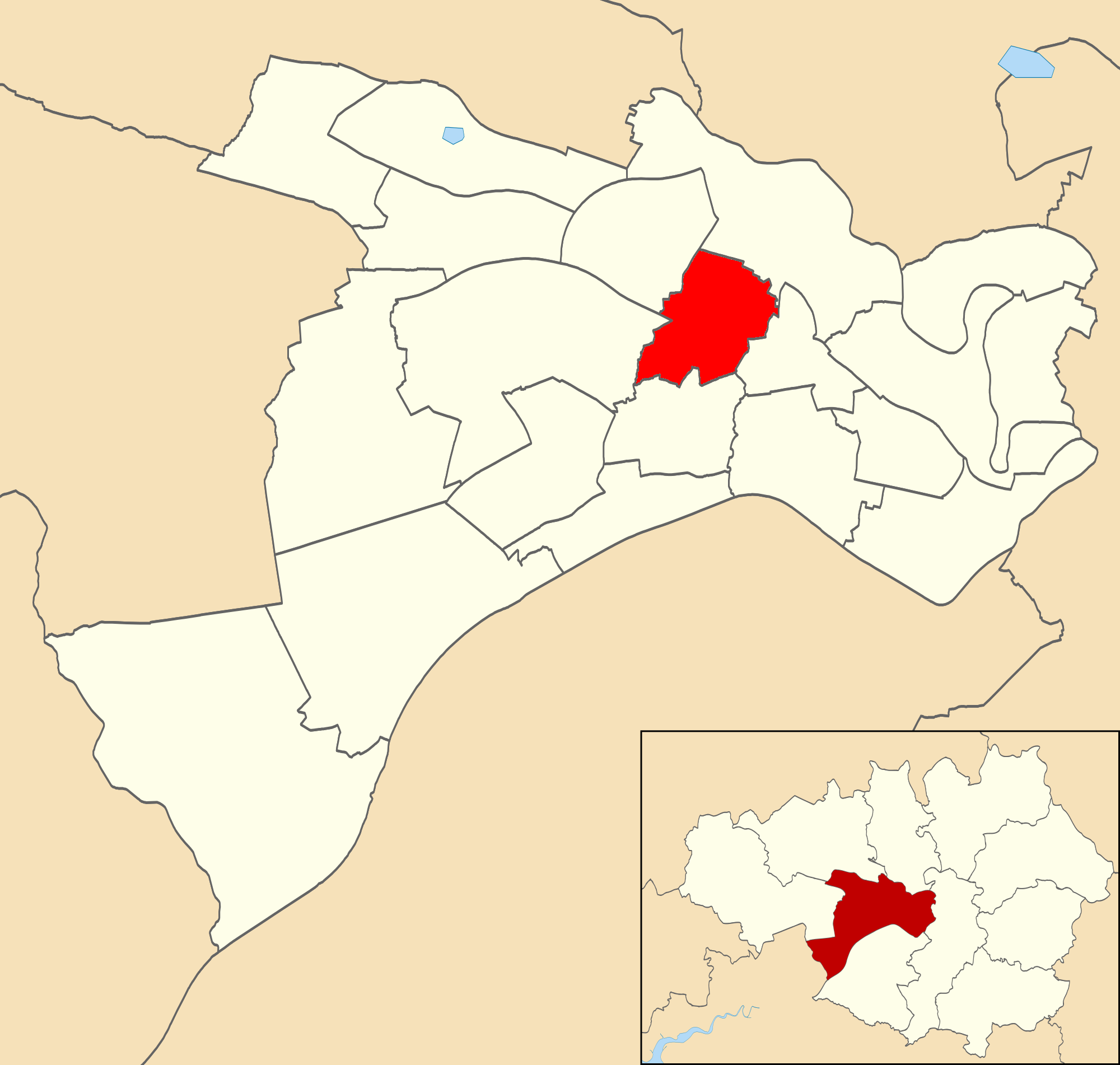 Map showing location of Swinton South ward within Salford City Council.